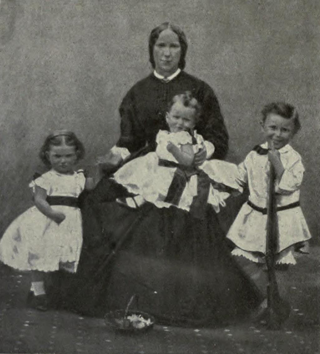 Lord Kitchener as a baby on his mother's lap, with his elder brother and his sister.